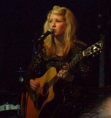 Ellie Goulding (born Elena Jane Goulding on 30 December 1986) – an English singer-songwriter and guitarist.